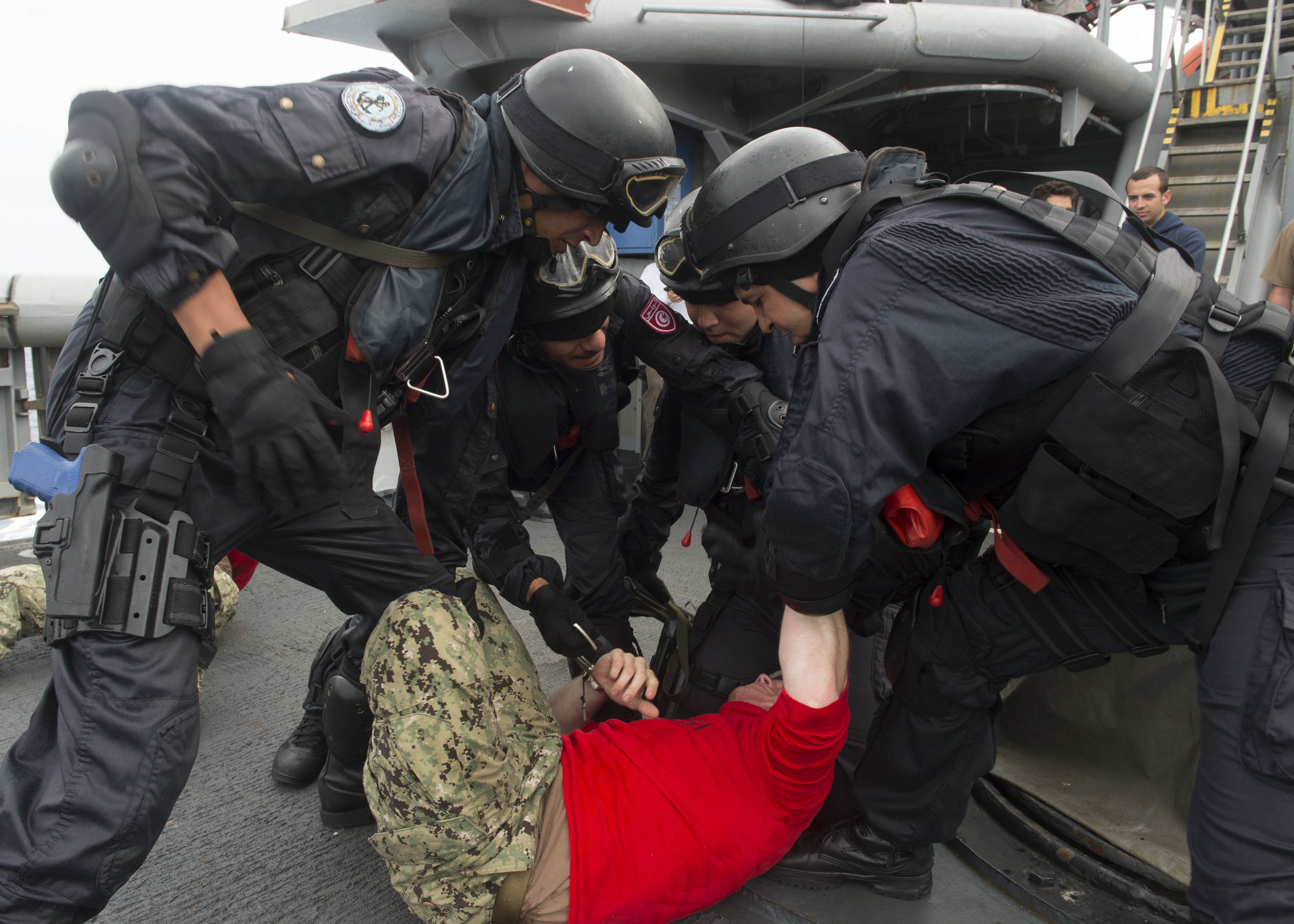 150520-N-NQ697-057 MEDITERRANEAN SEA (May 20, 2015) Tunisian Regiment marine commandos restrain a simulated suspect during a non-compliant boarding exercise aboard the Military Sealift Command search and rescue ship USNS Grasp (T-ARS 51) during exercise Phoenix Express 2015. Phoenix Express is an exercise sponsored and facilitated by U.S. Africa Command, which is designed to improve regional cooperation, maritime domain awareness, information-sharing practices, and tactical interdiction expertise to counter sea-based illicit activity in the region. (U.S. Navy photo by Mass Communication Specialist 3rd Class Matt Wright/Released)